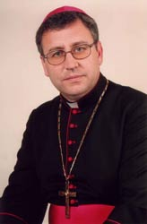 Roman Catholic Bishop of Skopje and the Apostolic Administrator and Exarch of the Macedonian Greek Catholic Church